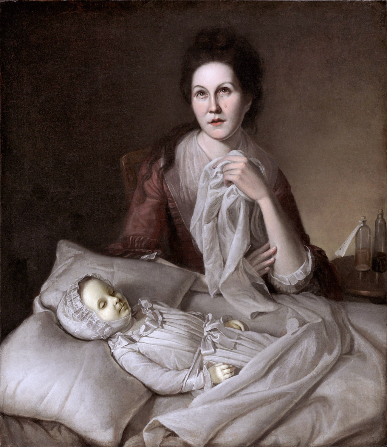 "Rachel Weeping". oil on canvas 93.5 x 81.4 cm